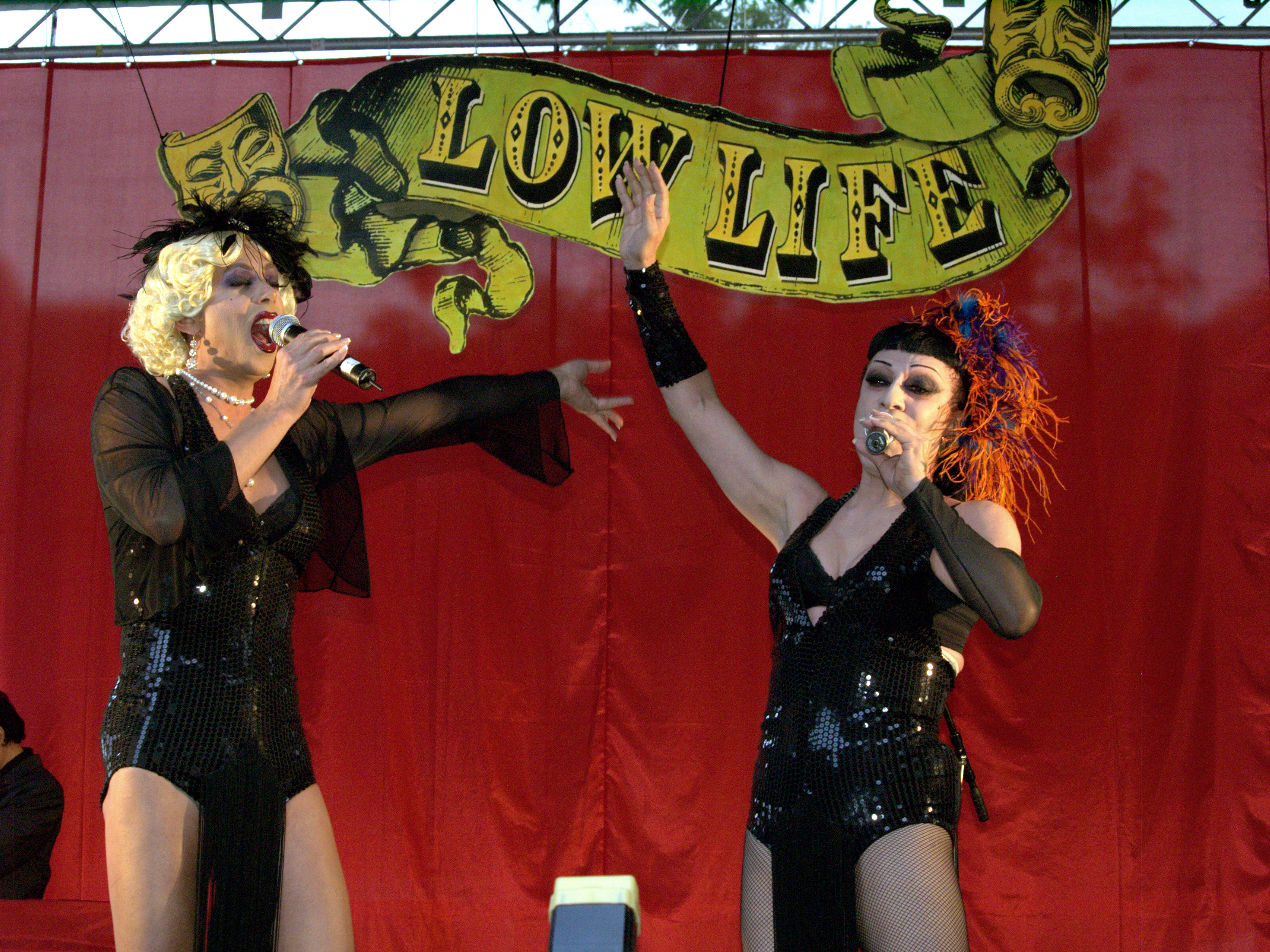 Drag artists, actors, singers and performers Joey Arias and Sherry Vine at the 2009 HOWL! Festival in New York City's East Village. Photographer's blog post about the photo and event.